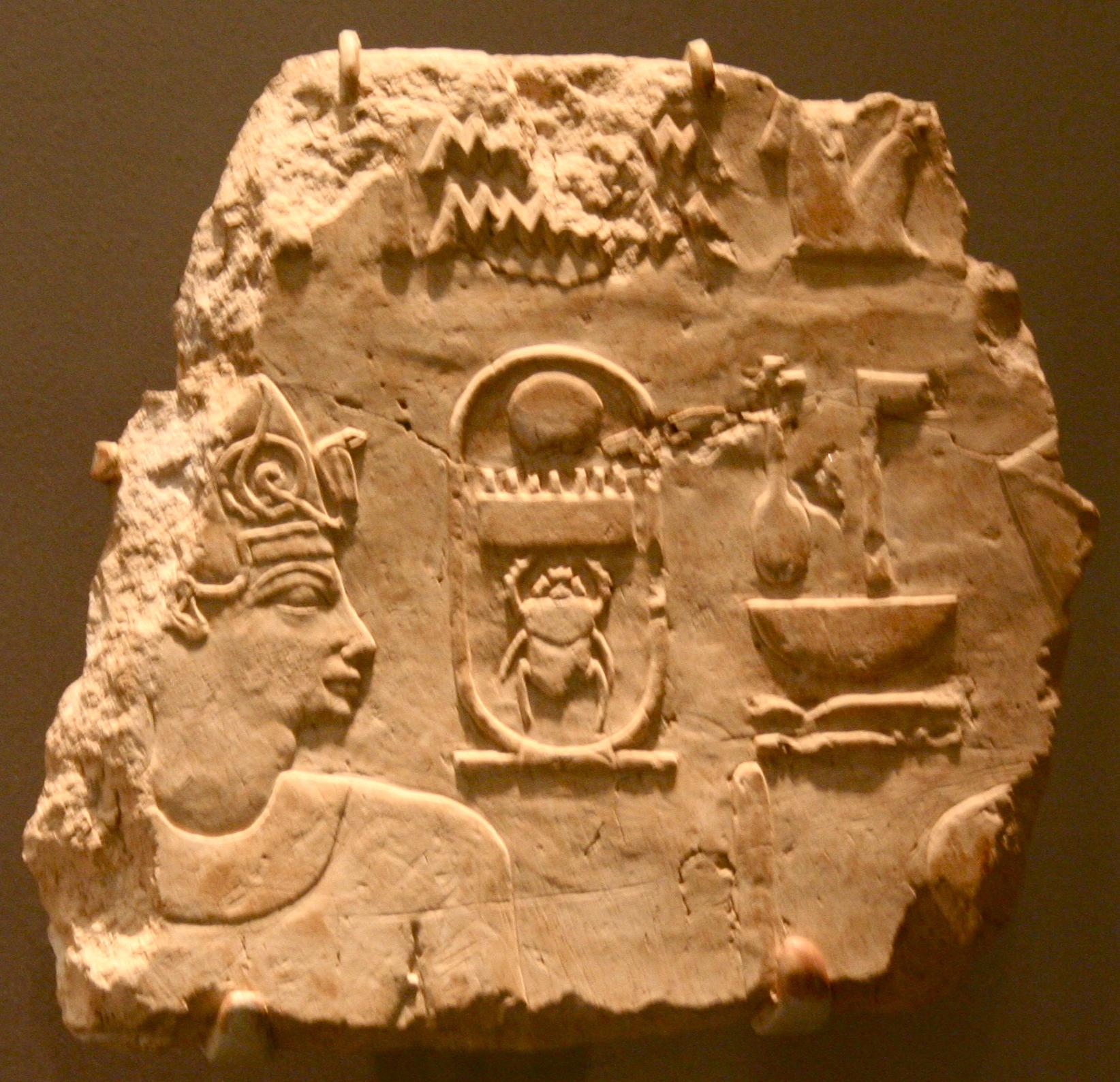 Royal Statues in Procession, ca. 1478-1458 B.C.E. Limestone, 6 7/16 x 6 7/8 in. (16.3 x 17.5 cm). Brooklyn Museum, Gift of the Ernest Erickson Foundation, Inc., 86.226.3.